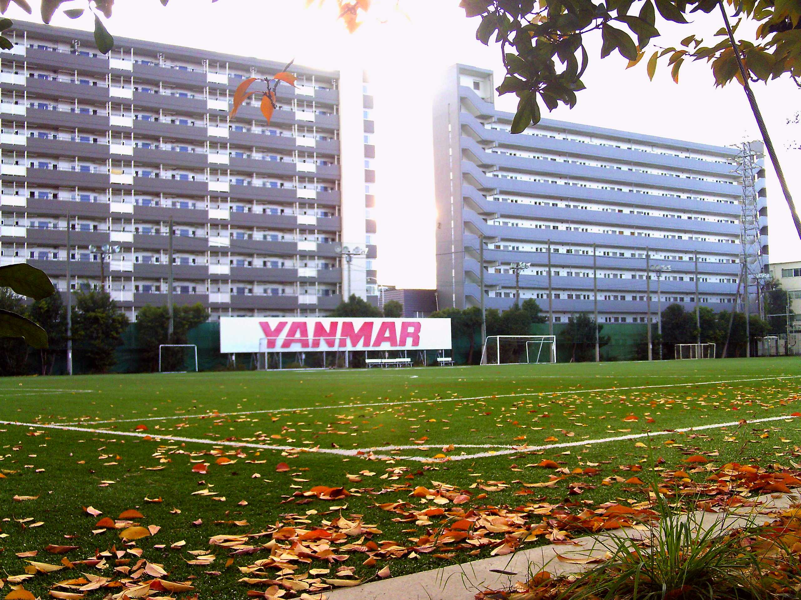 Yanmar-Amagasaki Football Ground